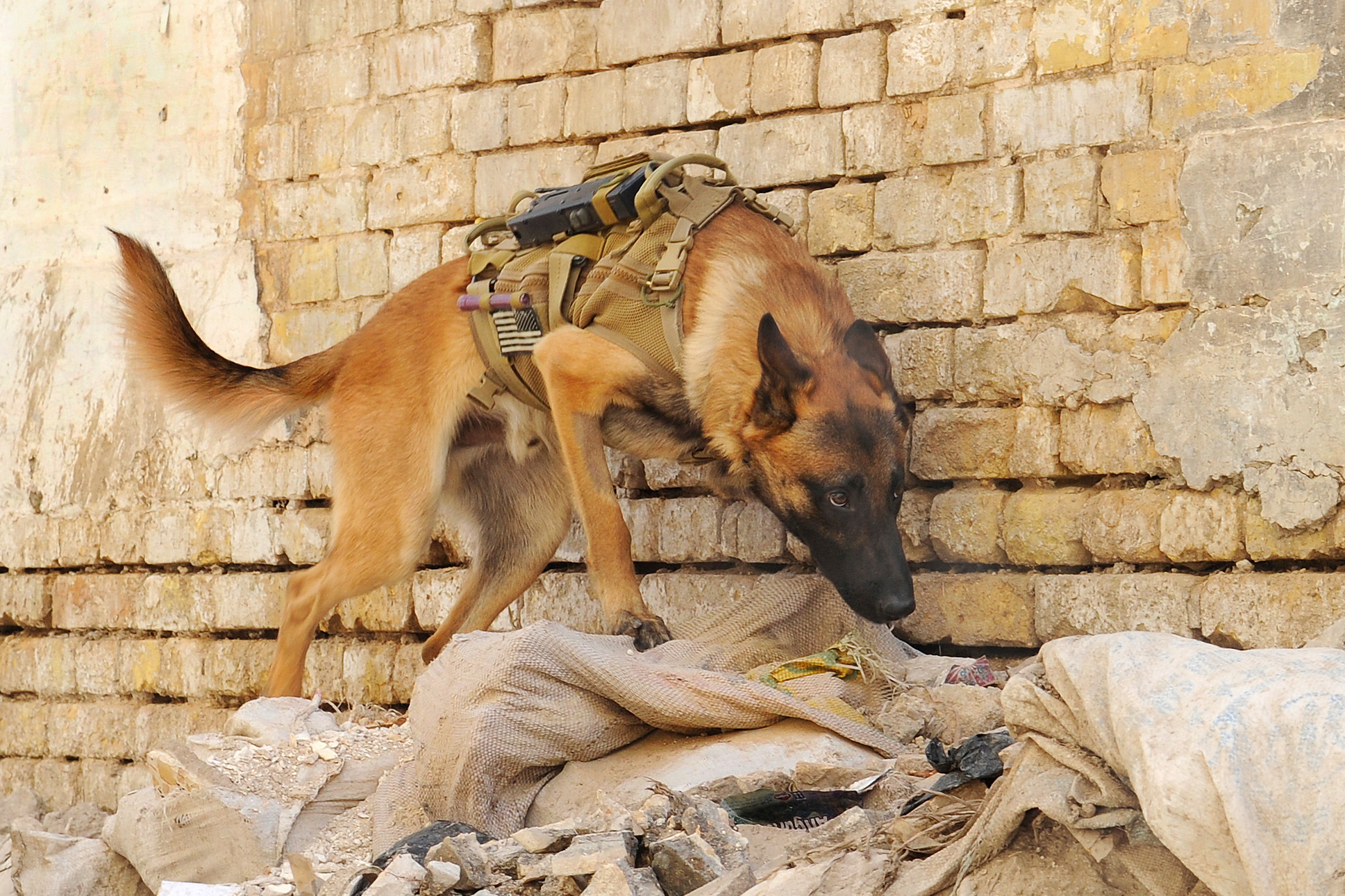 An U.S. Army military working dog, Louvre, searches among rubble and trash outside a target building, during a joint operation with the Iraqi army and U.S. Soldiers of 5th Squadron, 73rd Cavalry Regiment, 3rd Brigade Combat Team, 82nd Airborne Division, in Rusafa, eastern Baghdad, Iraq, on Feb. 28. The Soldiers are searching for weapons caches and targeted insurgents.